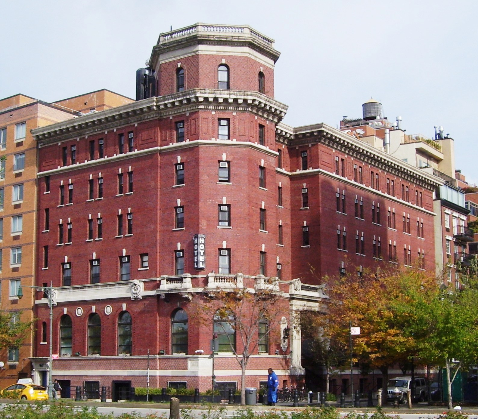 The Jane Hotel at 505-507 West Street on the corner of Jane Street in the West Village neighborhood of Manhattan, New York City was built in 1907-08 as the American Seamen's Friend Society Sailors' Home and Institute, and was designed by William A. Boring as a hotel for sailors. It included a chapel, a concert hall, and a bowling alley, and a beacon played over the river from the polygonal observatory. In 1912, it was used to house the survivors of the sinking of the Titanic while the inquest was being held. In 1944, the YMCA took it over and ran it as the Jane West hotel. In the 1970s, the hotel's ballroom was converted into an Off-Broadway theatre, the Jane Street Theatre. The hotel was renamed the Riverview and fell on hard times, until it was renovated in 2008 and re-christened the Jane Hotel. (Sources: Guide to NYC Landmarks (4th ed.), "History" on the Jane Hotel website and NY Times article by Christopher Gray.)